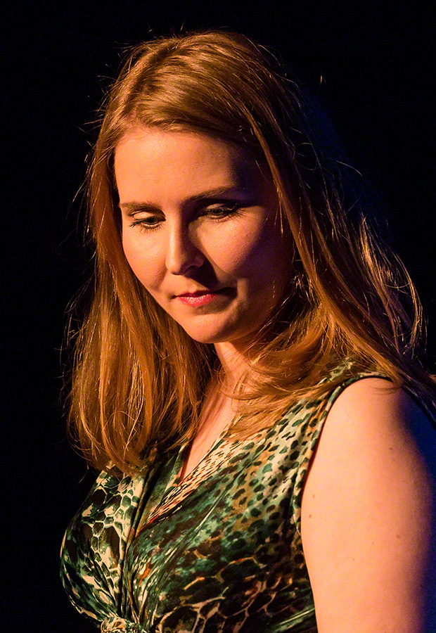 Ingvild Koksvik performs at Parkteatret in Oslo on 08. May 2016. The concert marked the release of her new album "Og sangen kom fra havet".Lineup:Ingvild Koksvik (vocal)Lars Jakob Rudjord (piano)Katrine Schiøtt (cello)